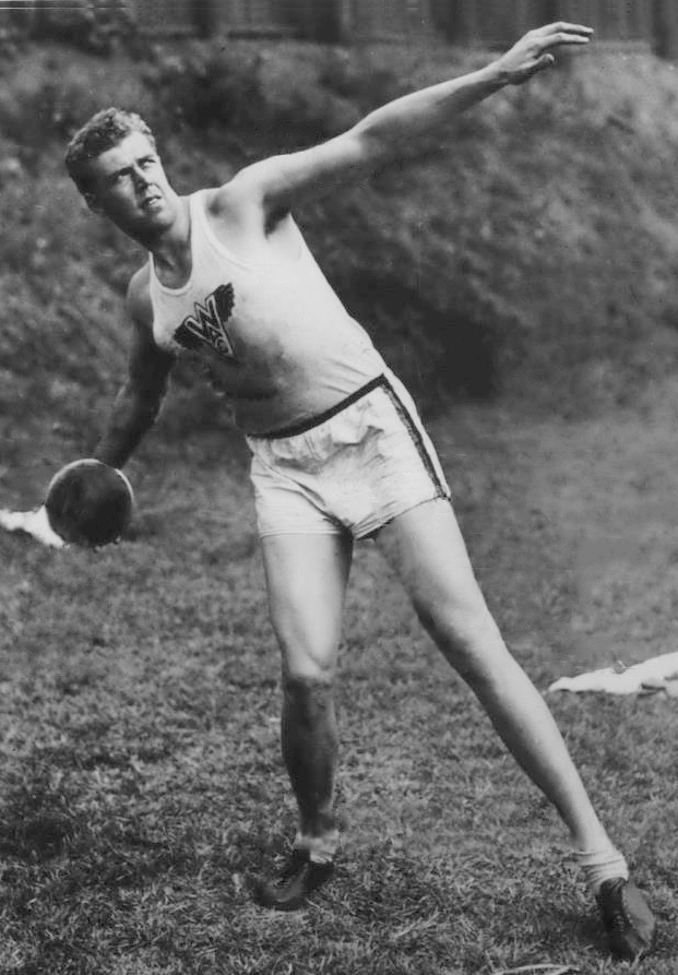 1930 Press Photo Paul Jessup wins discus event at Nat'l Senior AAU championship